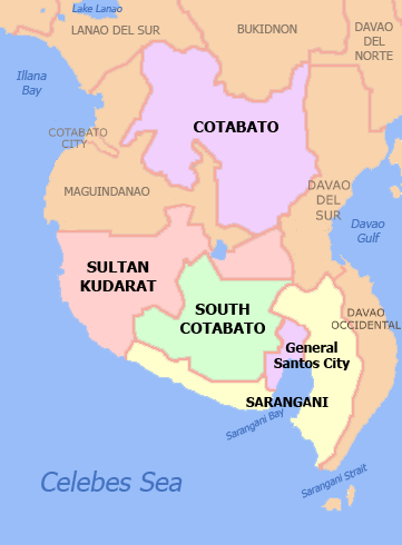 Political Map of SOCCSKSARGEN Region, Philippines. Showing Cotabato, Sarangani, South Cotabato, Sultan Kudarat, Cotabato City and General Santos City. Used the map template :Image:BlankMap-Philippines.png by User:TheCoffee.